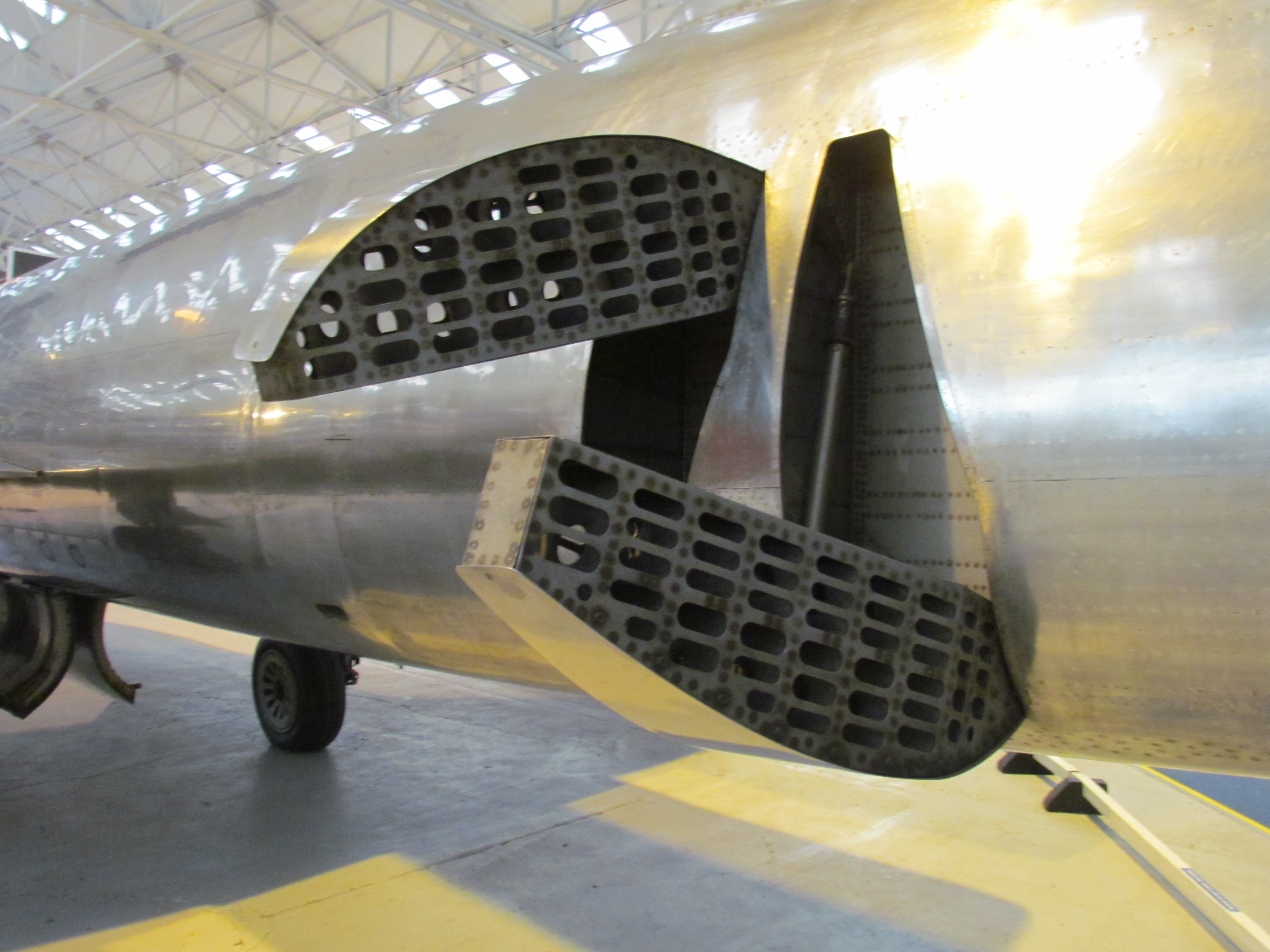 Bristol 188